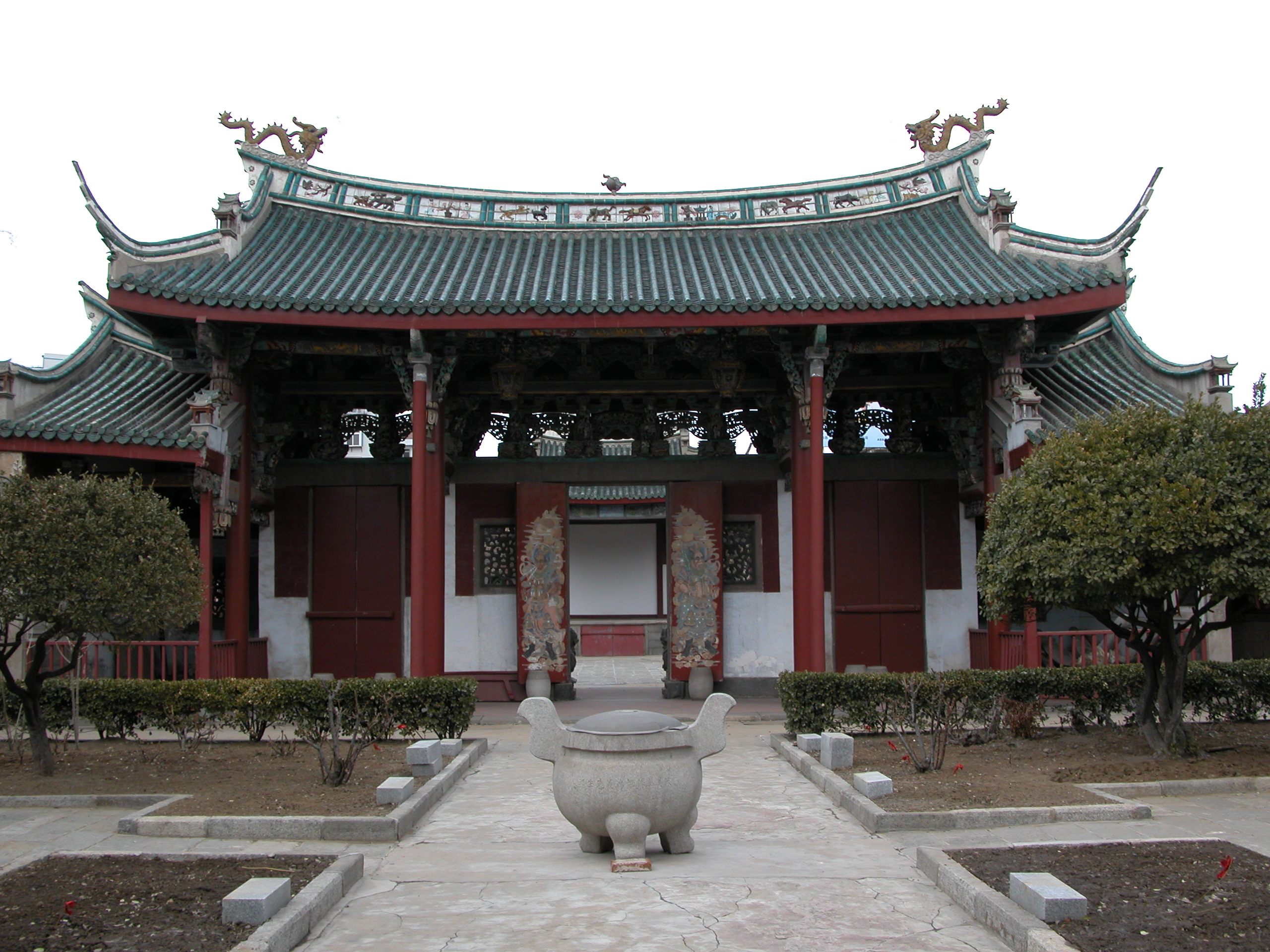 Yantai Temple of the Sea Goddess downtown Yantai, Shandong Province, China. Author: S.T. Fullerton { }